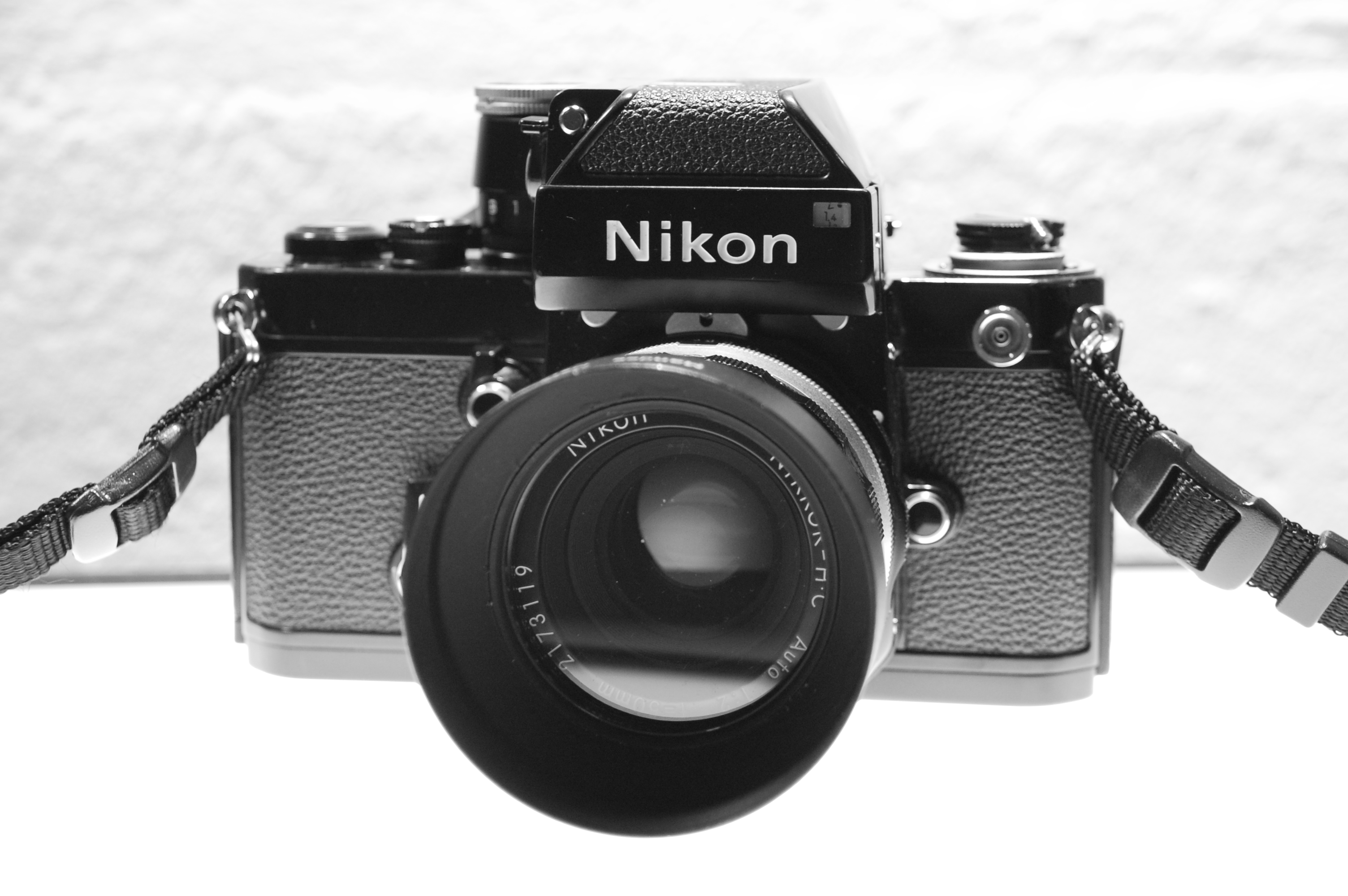 A black body 1972 Nikon F2 Photomic (DP-1 finder) with a Nikkor 50mm f/2 lens.